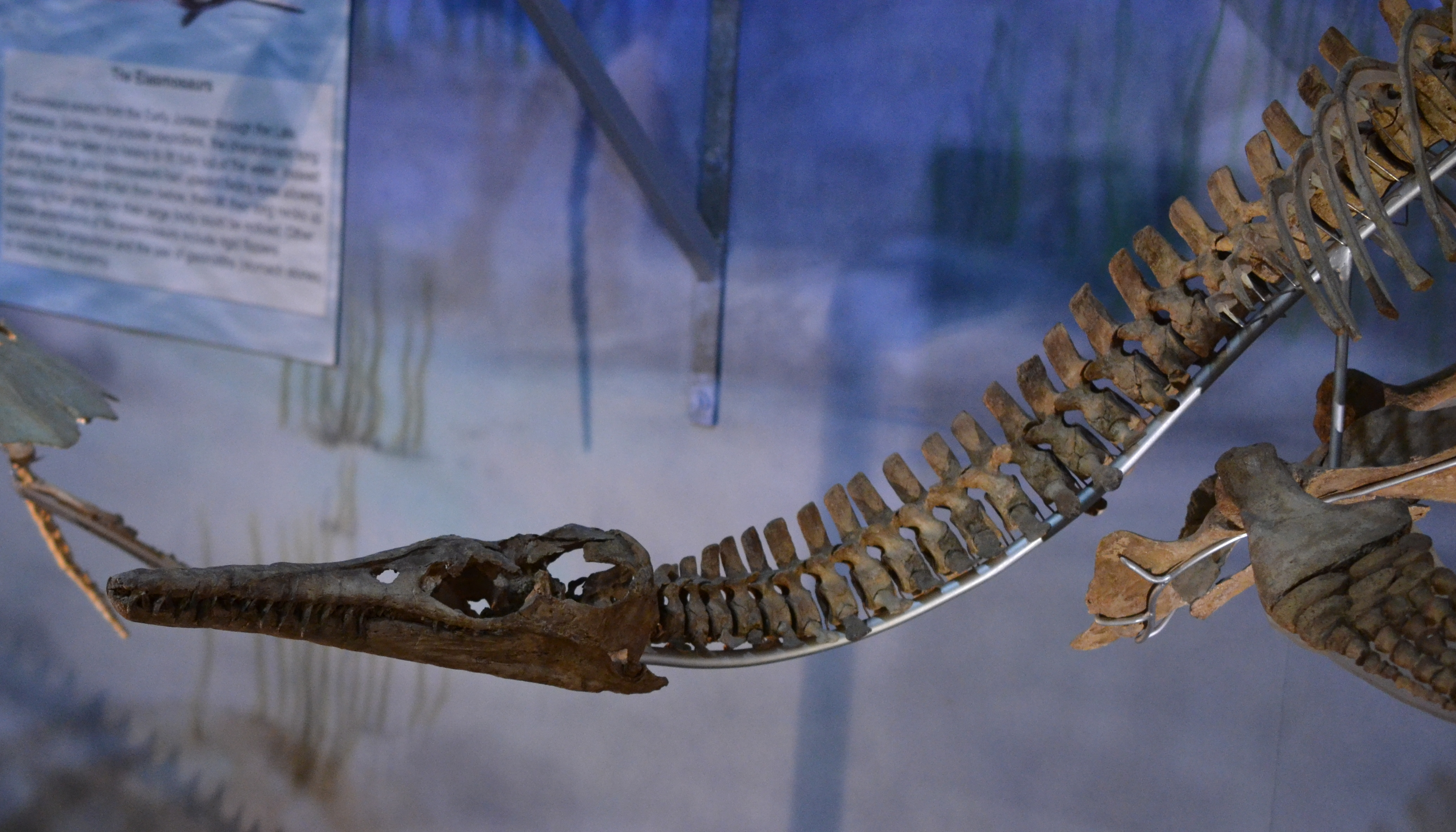 Wyoming Dinosaur Center